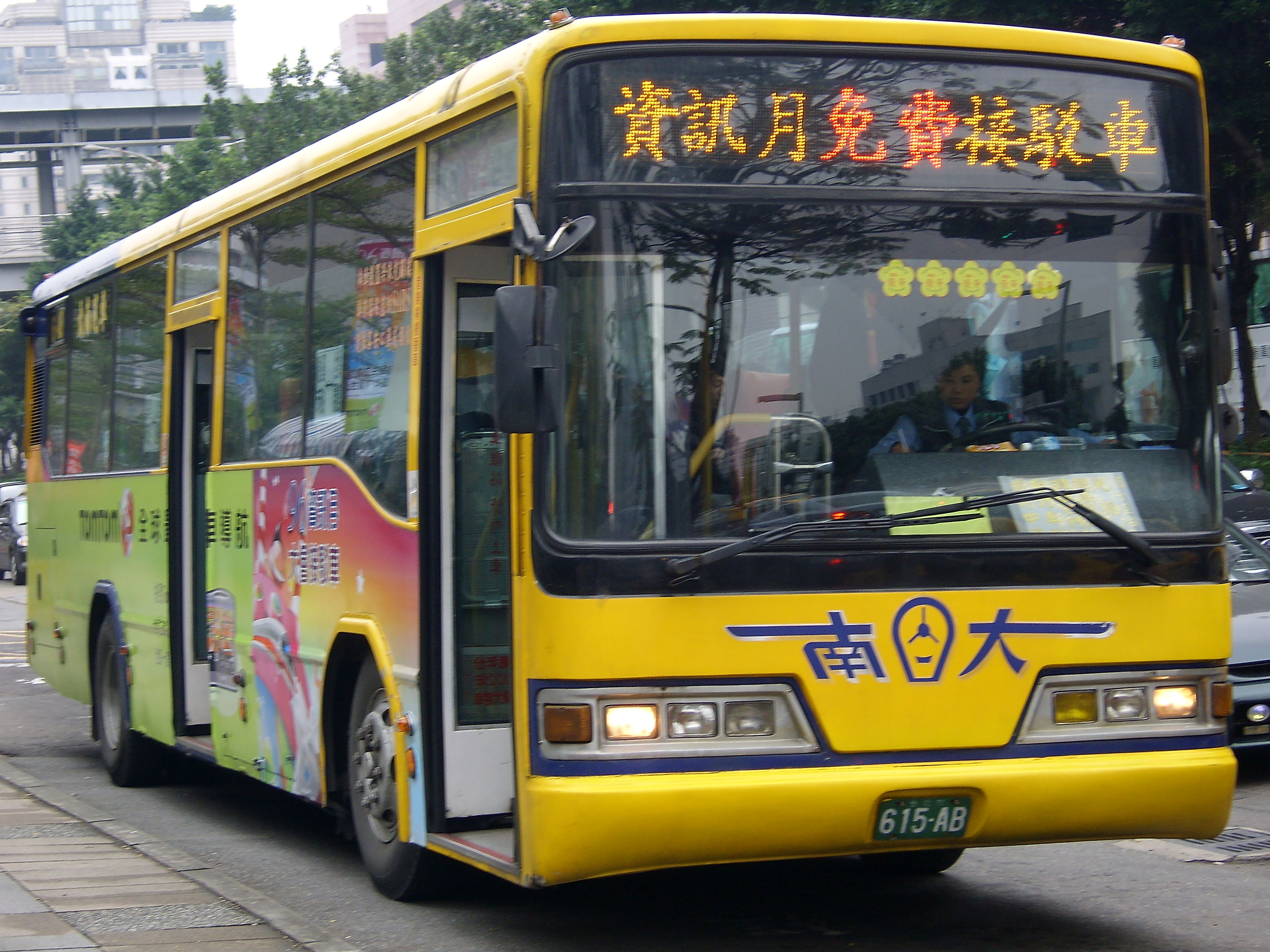 2007 Taipei IT Month: Shuttle Bus by Da-nan Bus Co., Ltd.